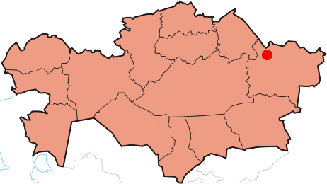 Location of the city of Semey (Semipalatinsk) within Kazakhstan and oblysy Shyghys Qazaqstan Based upon Image:Kzk-zap.gif